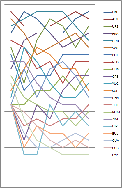 1980 FINN Daily standings during the Olympic sailing event